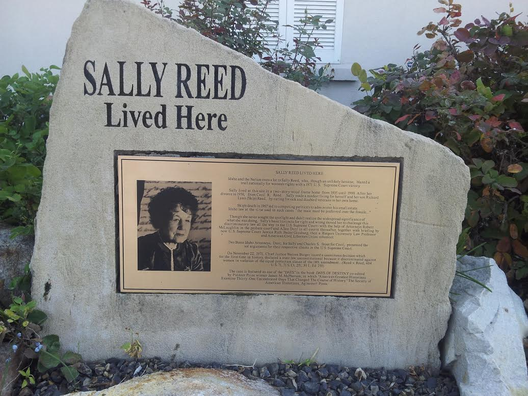 The Sally Reed Memorial in Boise, Idaho regarding the 1971 Equal Protection SCOTUS case Reed v. Reed.